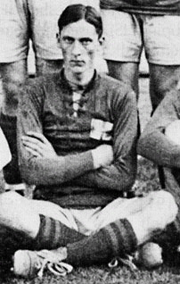 Swedish footballer Helge Ekroth at the 1912 Summer Olympics in Stockholm